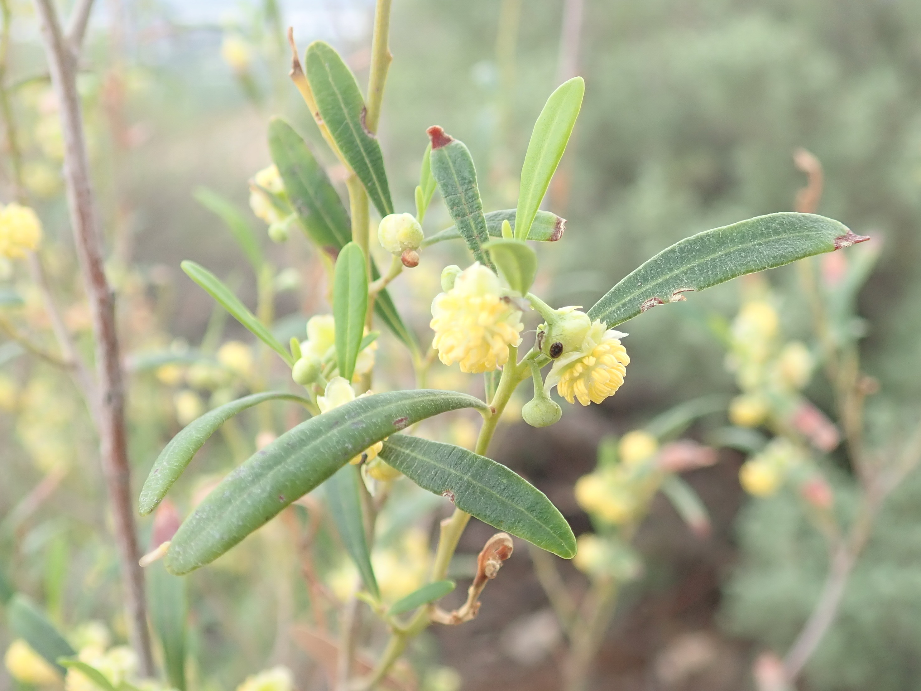 Bertya gummifera - male flower